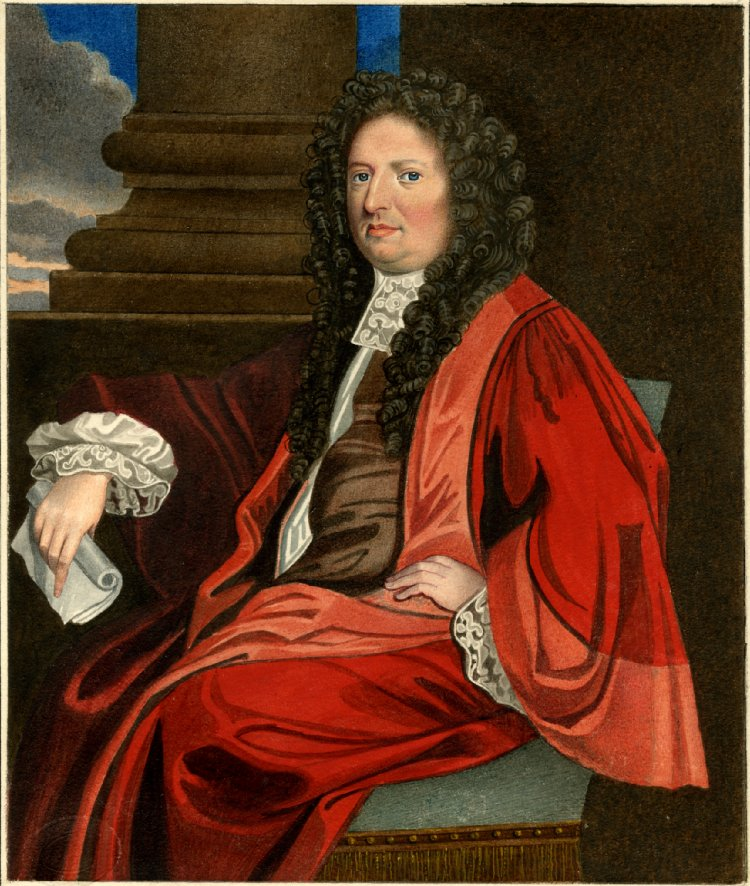 Portrait of the antiquary Robert Plot, D.D., by Sylvester Harding. Drawn on paper. 170 mm x 145 mm. Courtesy of the British Museum, London.